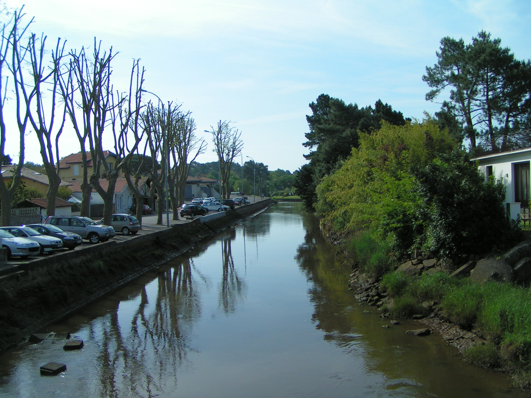 From the pont de la Halle, look to the Boudigau river upstream (or to the south). Capbreton (Landes, France).